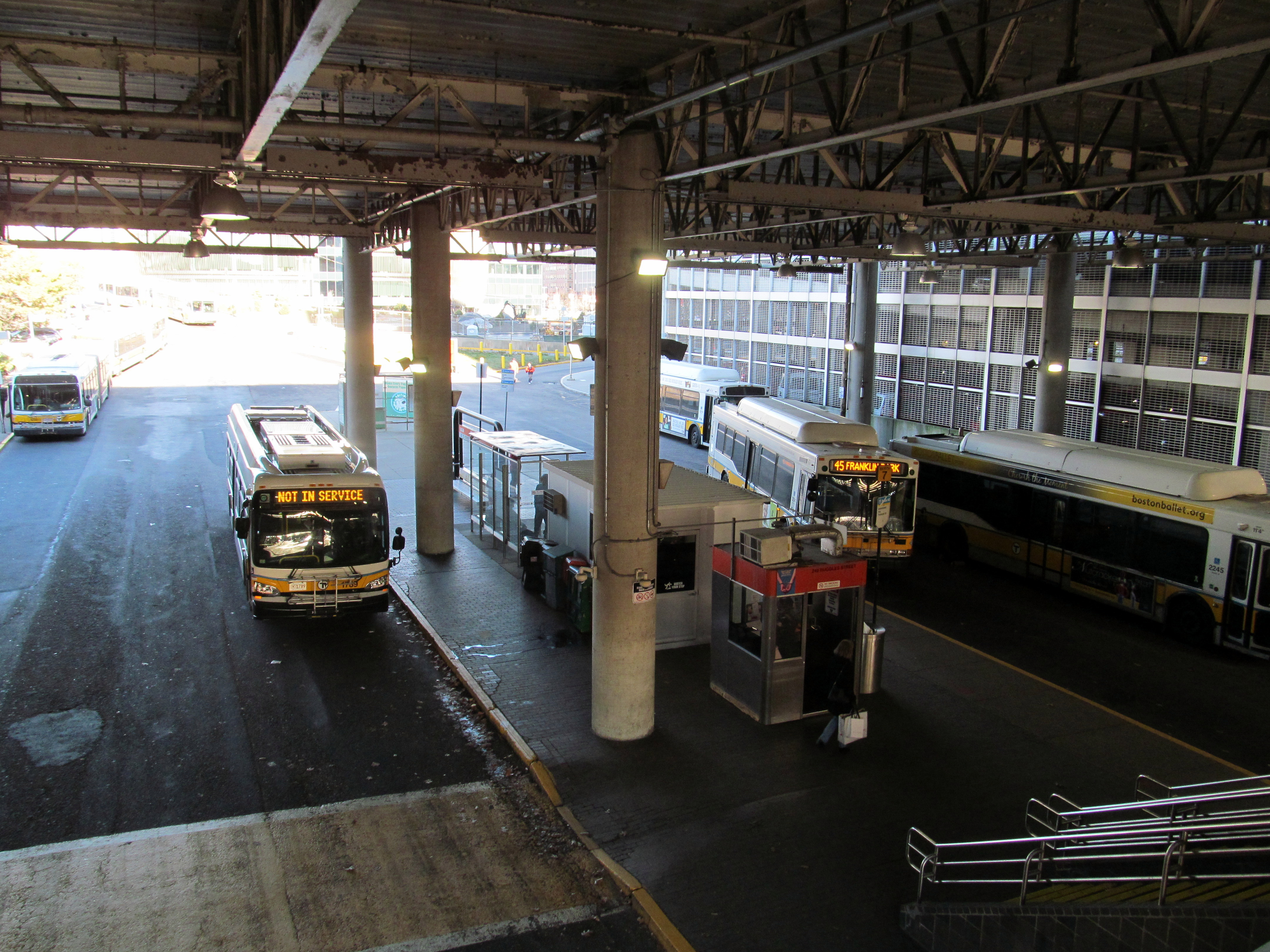 A route 45 bus and other buses in the lower busway at Ruggles station in December 2016